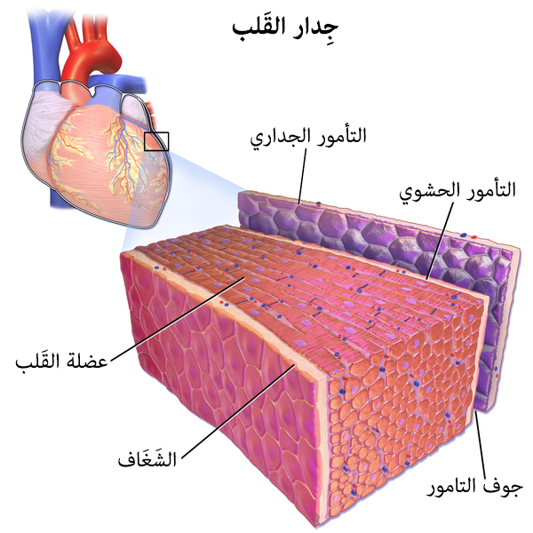 Heart Wall. See a related animation of this medical topic.